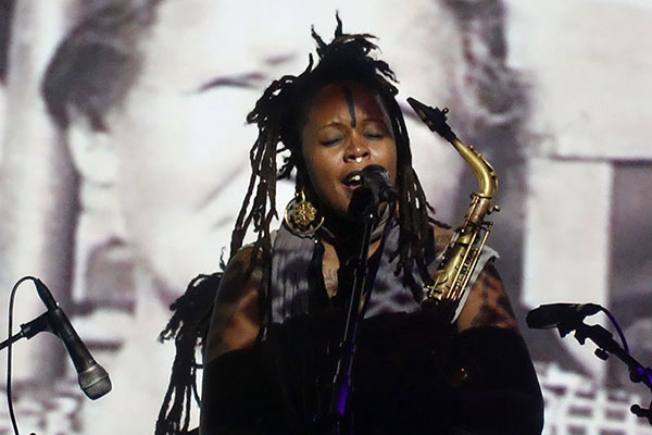 Mantana Roberts in Aarhus, Denmark 2015